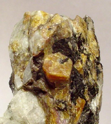 Wöhlerite Locality: Langesundsfjorden, Larvik, Vestfold, Norway Size: 6.2 cm x 3 cm x 2.6 cm Wöhlerite is a rare sodium, calcium, zirconium, niobium silicate found in the late phase of strange and uncommon alkalid pegmatites, nepheline syenites, fenites and carbonatites. This very rich old-time specimen is from near the famous Type Locality (discovered in 1843) in Norway, where thorite was discovered in 1829. Lustrous, translucent, yellowish-brown wohlerite crystals and crystal fragments to about 1.5 cm are richly scattered on all sides of the starkly contrasting, two-toned matrix. Rarely available from this locality. Accompanied by an expertly handwritten, faded label from an older collection. The collection this came out of was a museum stash dating to prior to World War I.